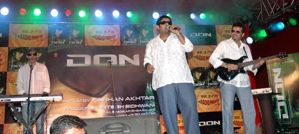 Shankar-Ehsaan-Loy performing at the audio release function of Don: The Chase Begins Again